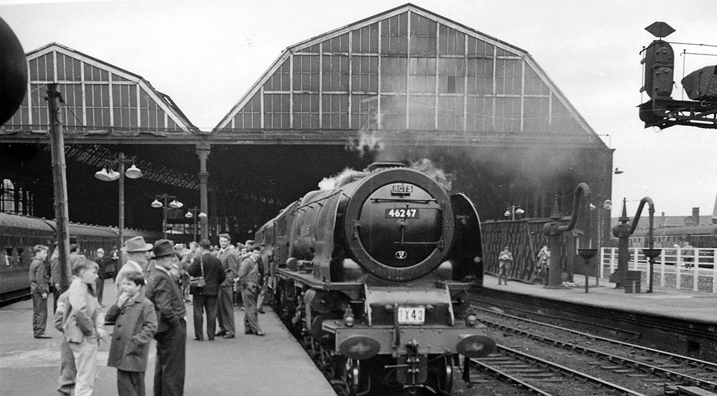 Leeds City South Station: west end, with Rail Tour train. View eastward; ex-Midland (Wellington) terminus of lines from Sheffield and the South and north to Bradford, Carlisle and Morecambe etc. This was a Railway Correspondence & Travel Society 'Borders Rail Tour', about to set out on its first leg to Carlisle with Stanier 'Coronation' 4-6-2 No. 46247 'City of Liverpool'.